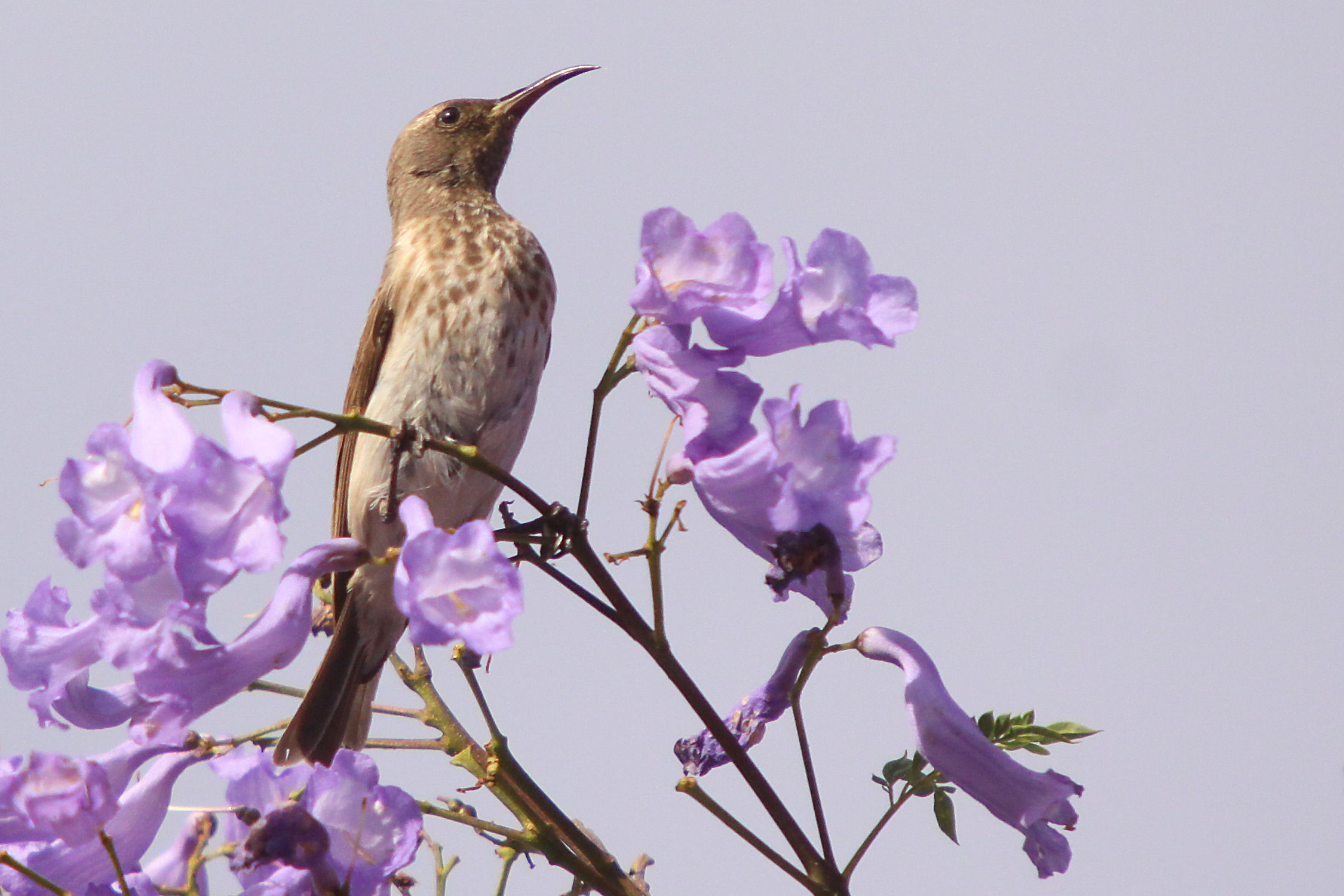 Female Black Honeyeater on a Jacaranda Tree. Sandy Hollow, NSW, Australia.